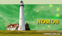 Logo of the Center for assistance to the the geopolitical problems and euroatlantic cooperation of the Black sea region studies Nomos